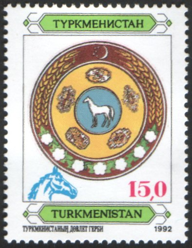 Stamp of Turkmenistan, 1992. Overprint. Author - Post of Turkmenistan.